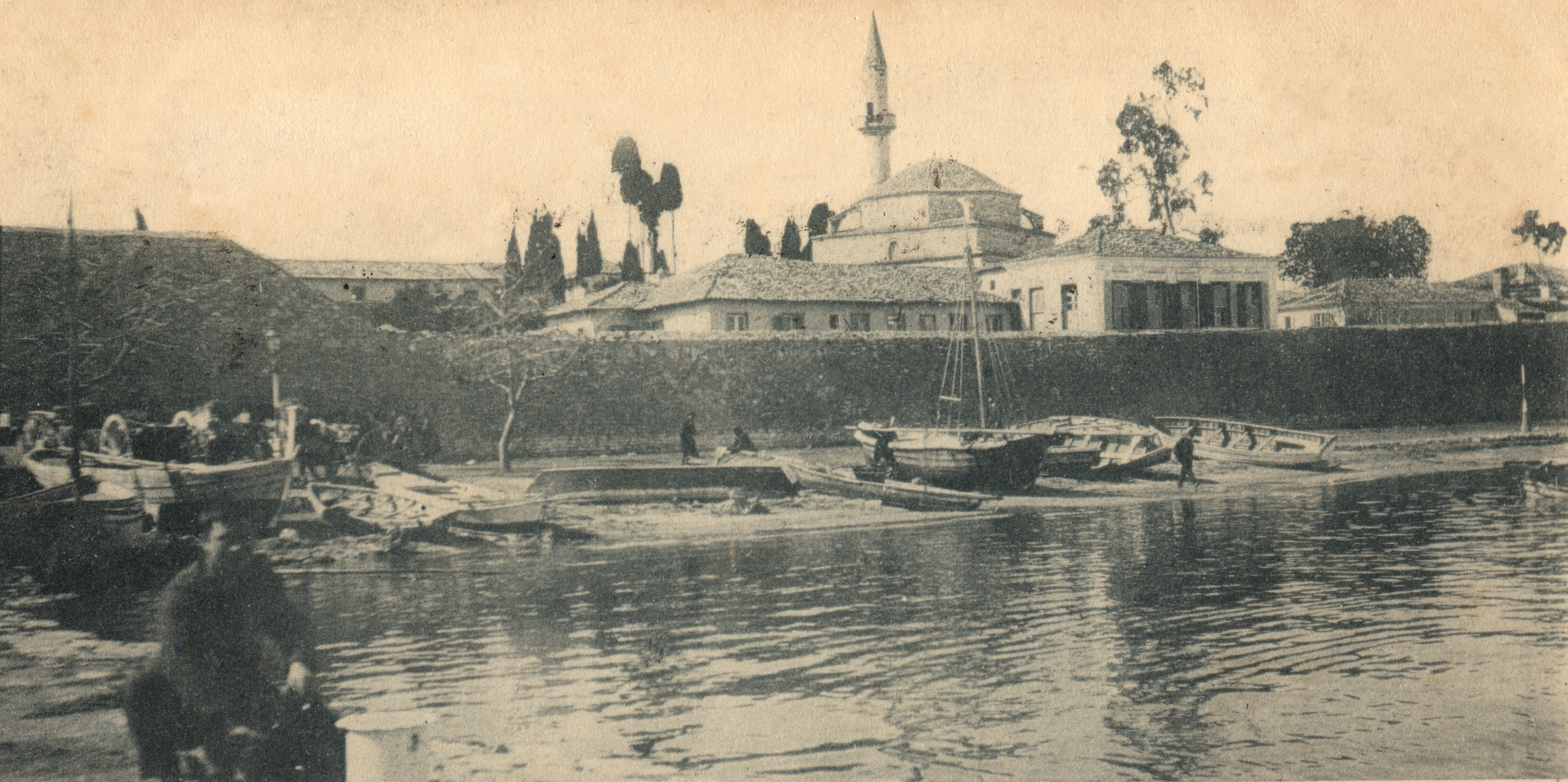 The outer sea wall of St. Andrew's castle, Preveza, Greece. Photograph of 1912